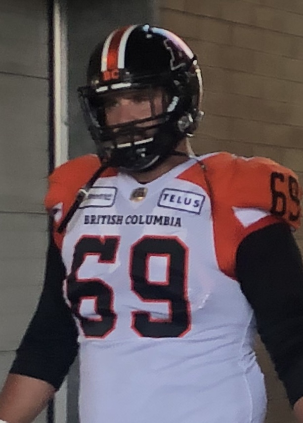 Brett Boyko, offensive lineman for the BC Lions.